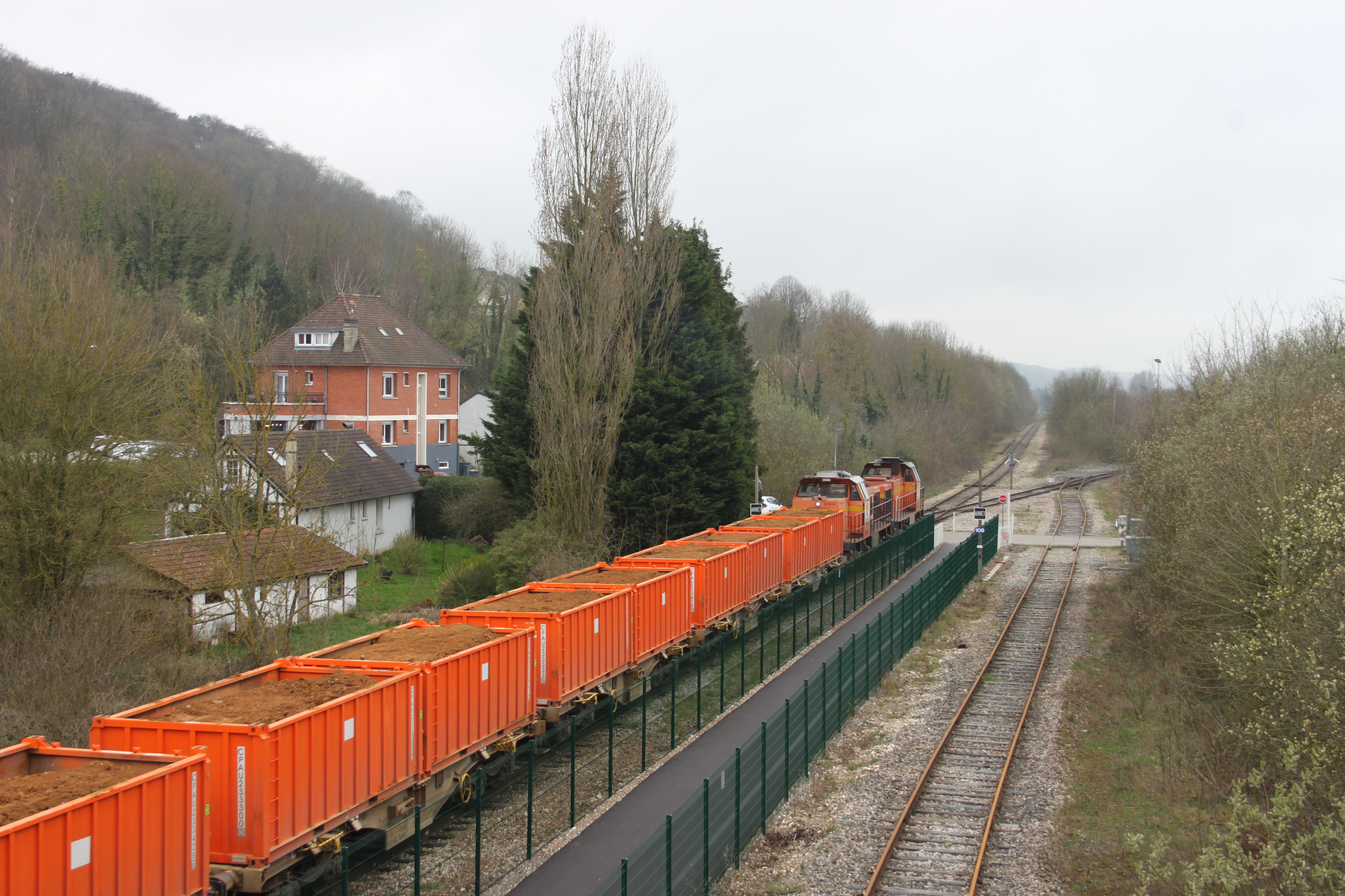 Rouxmesnil-Bouteilles, PN108, départ (après refoulement du faisceau de voies de garages) d'un train de terre pour le Terminal Forestier du port de Rouen (via changement de bout en gare de Dieppe) . Tiré par les Vossloh G 1206 COLAS RAIL n°10 et 13 . Remarquer un quai à voyageur vestige de la gare de Rouxmesnil et plus loin au fond le PN109, à droite naissance de la ligne de Rouxmesnil à Eu .